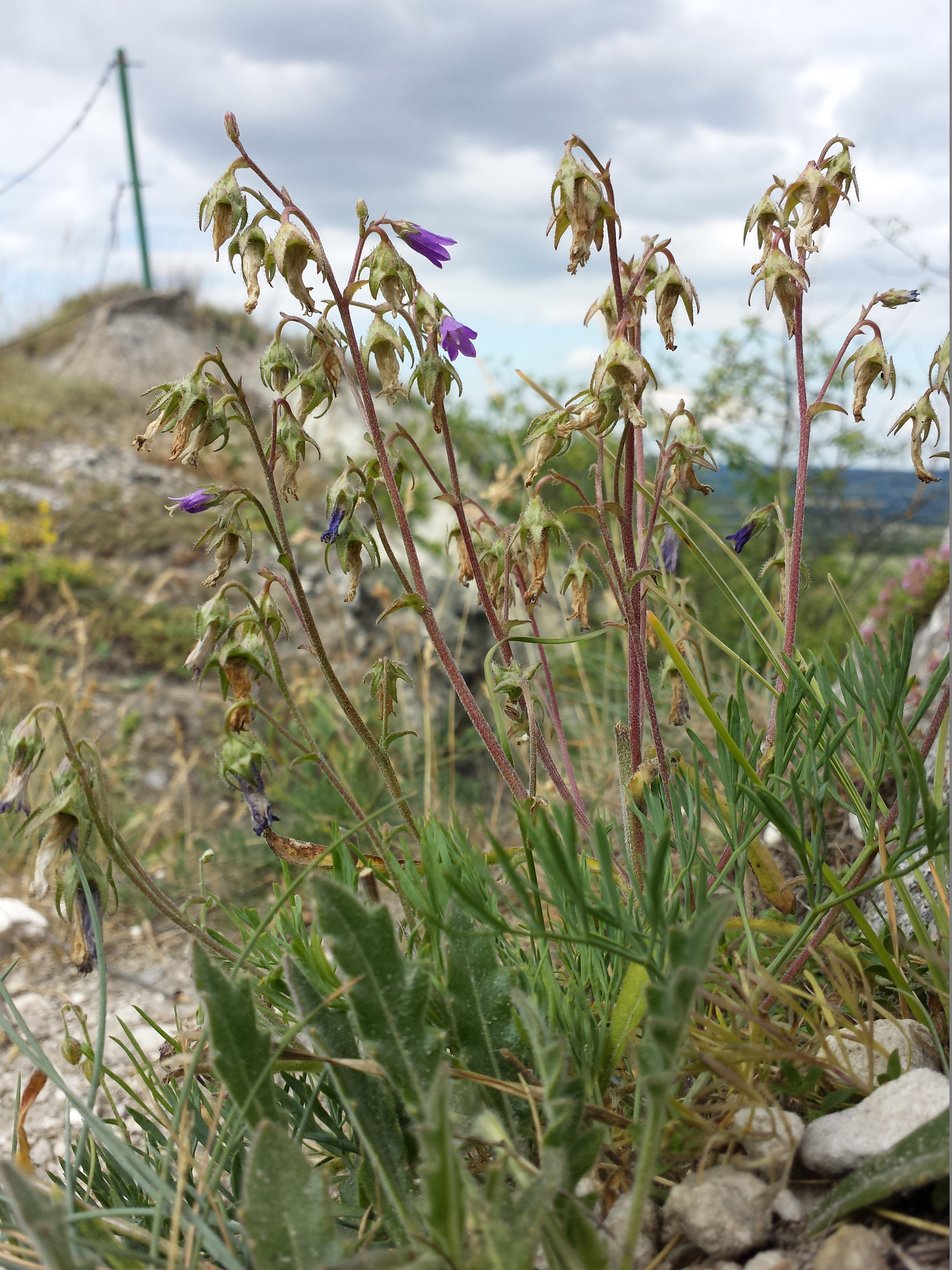 Habitus Taxon: Campanula sibirica subsp. sibirica (sensu Fischer et al. EfÖLS 2008 ISBN 978-3-85474-187-9; det. M. A. Fischer 2014-06-14) Location: Schweinbarther Berg, district Mistelbach, Lower Austria - ca. 330 m a.s.l. Habitat: rock steppe (lime stone)